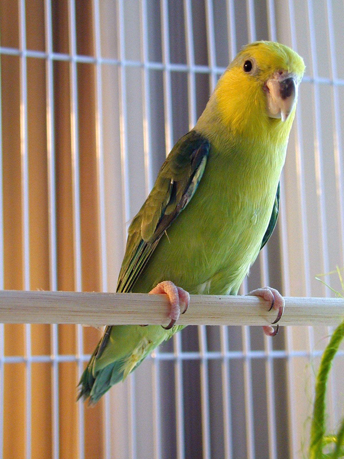 An adult male Yellow-faced Parrotlet photographed at the 2002 AFA convention in Tampa, Florida, USA.